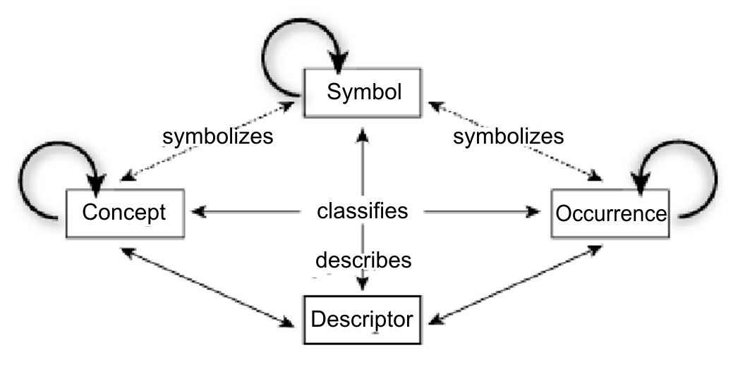 Core of the geologic map information meta-model. The rectilinear arrows indicate relationships between meta-objects, and the reflexive arrows indicate self-referential hierarchies within the meta-object classes.